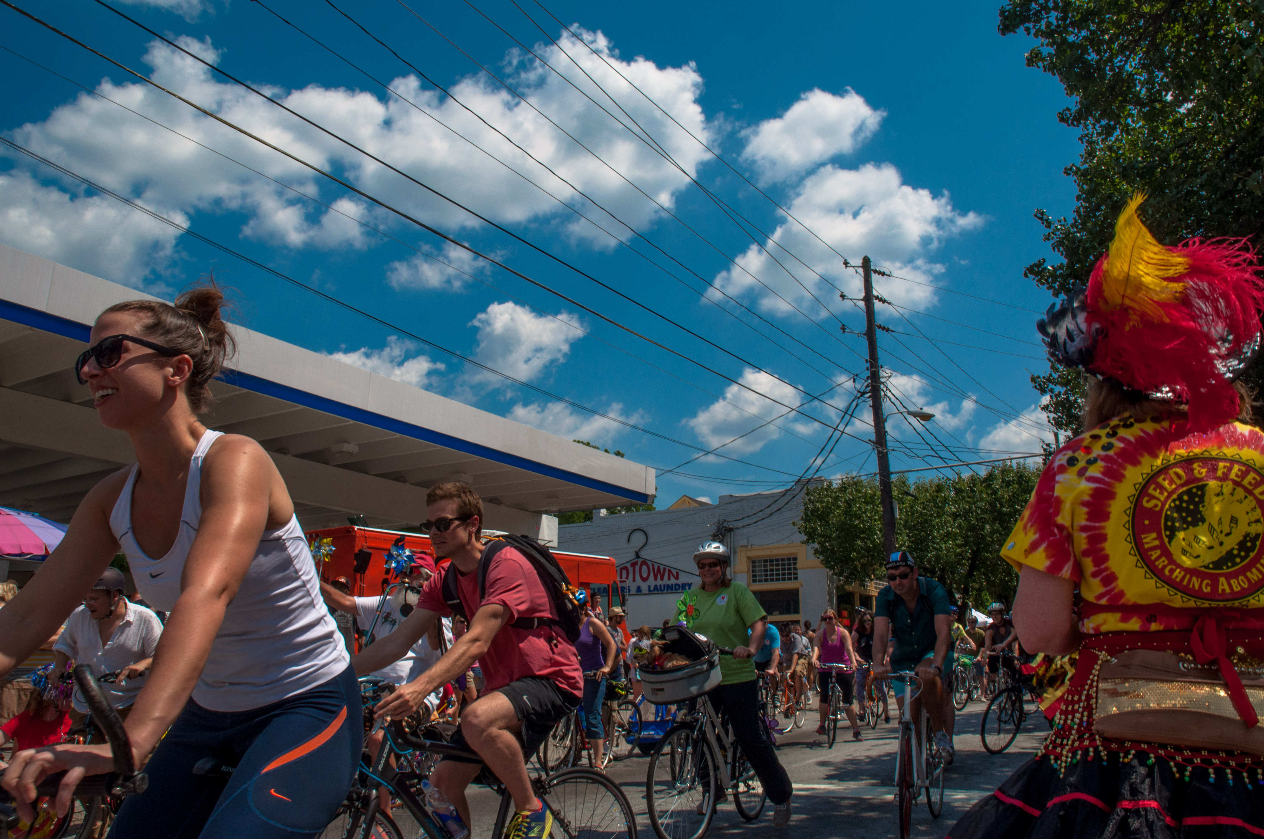 Atlanta streets alive in VA-highlands